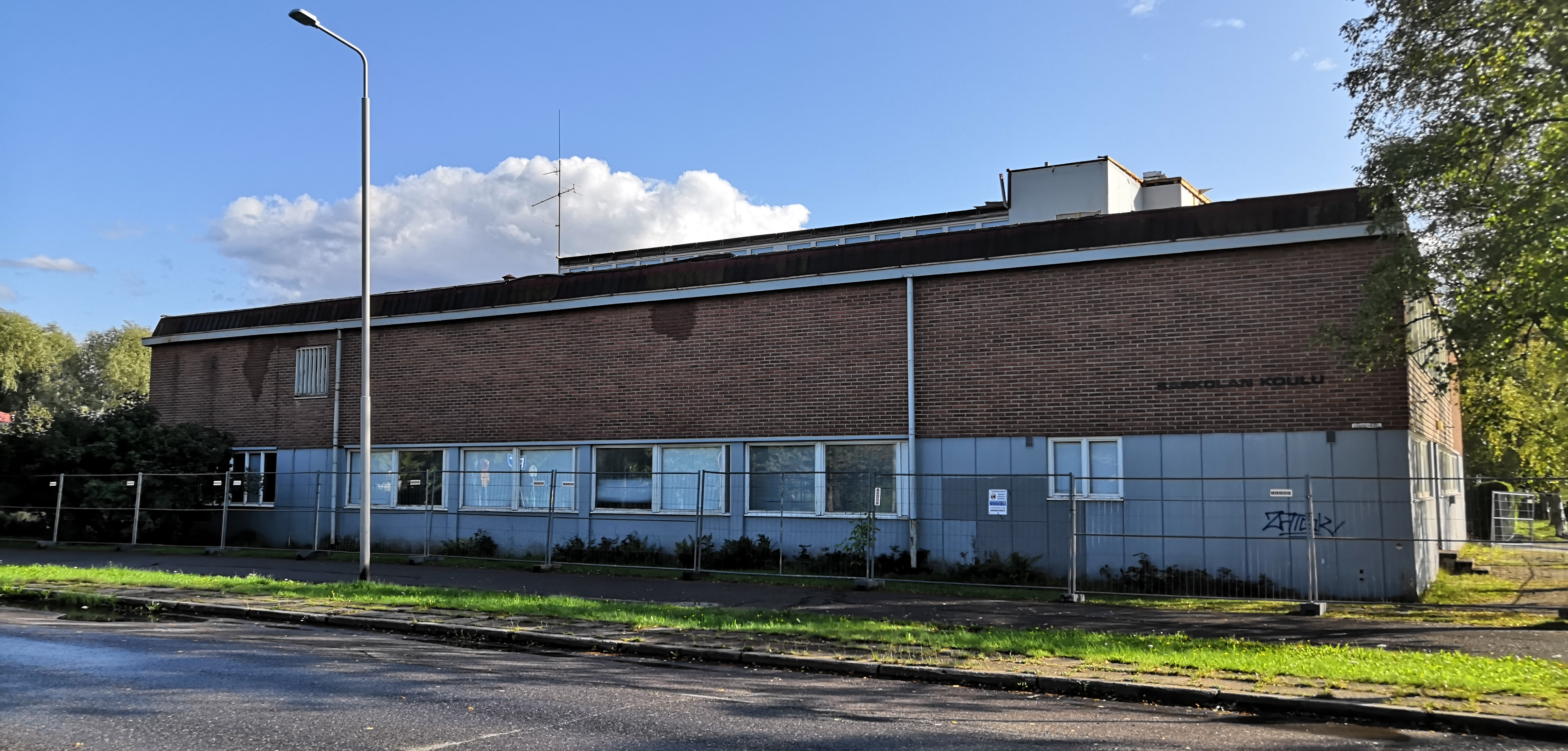 Sarkolan koulu suomenkadun suunnasta (syyskuu 2019)